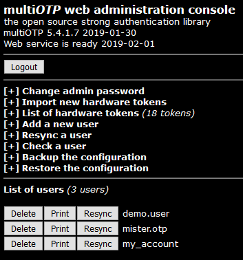 Web interface of the multiOTP strong two-factor authentication open source package